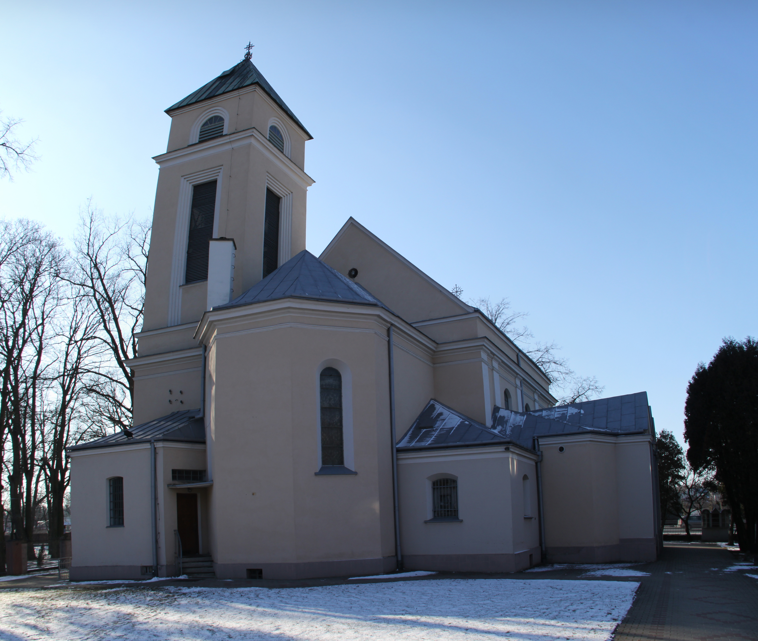 St. Andrew Bobola Church in Marki-Struga, Poland.